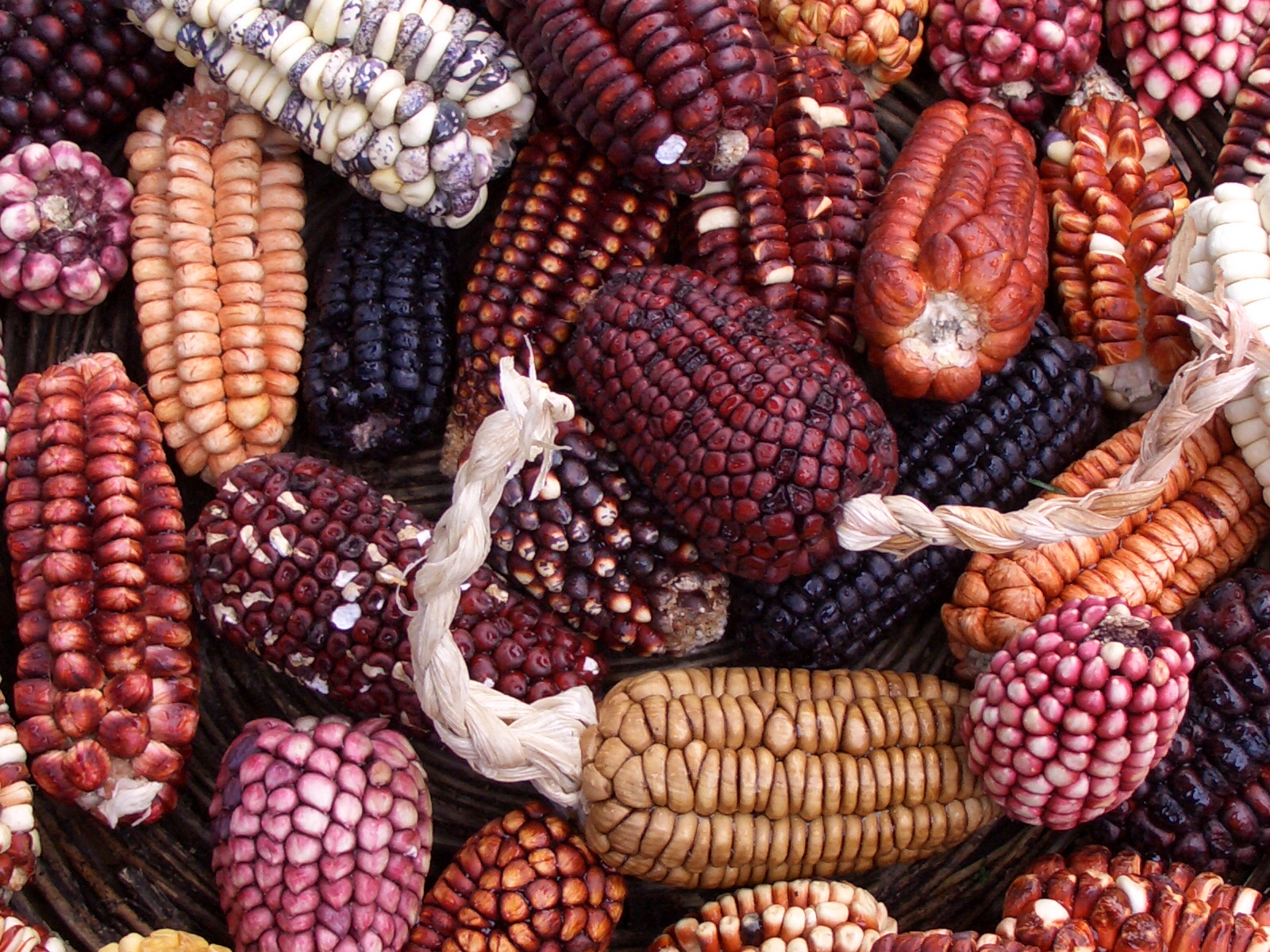 Peruvian cornA huge variety of corn is grown in Peru.